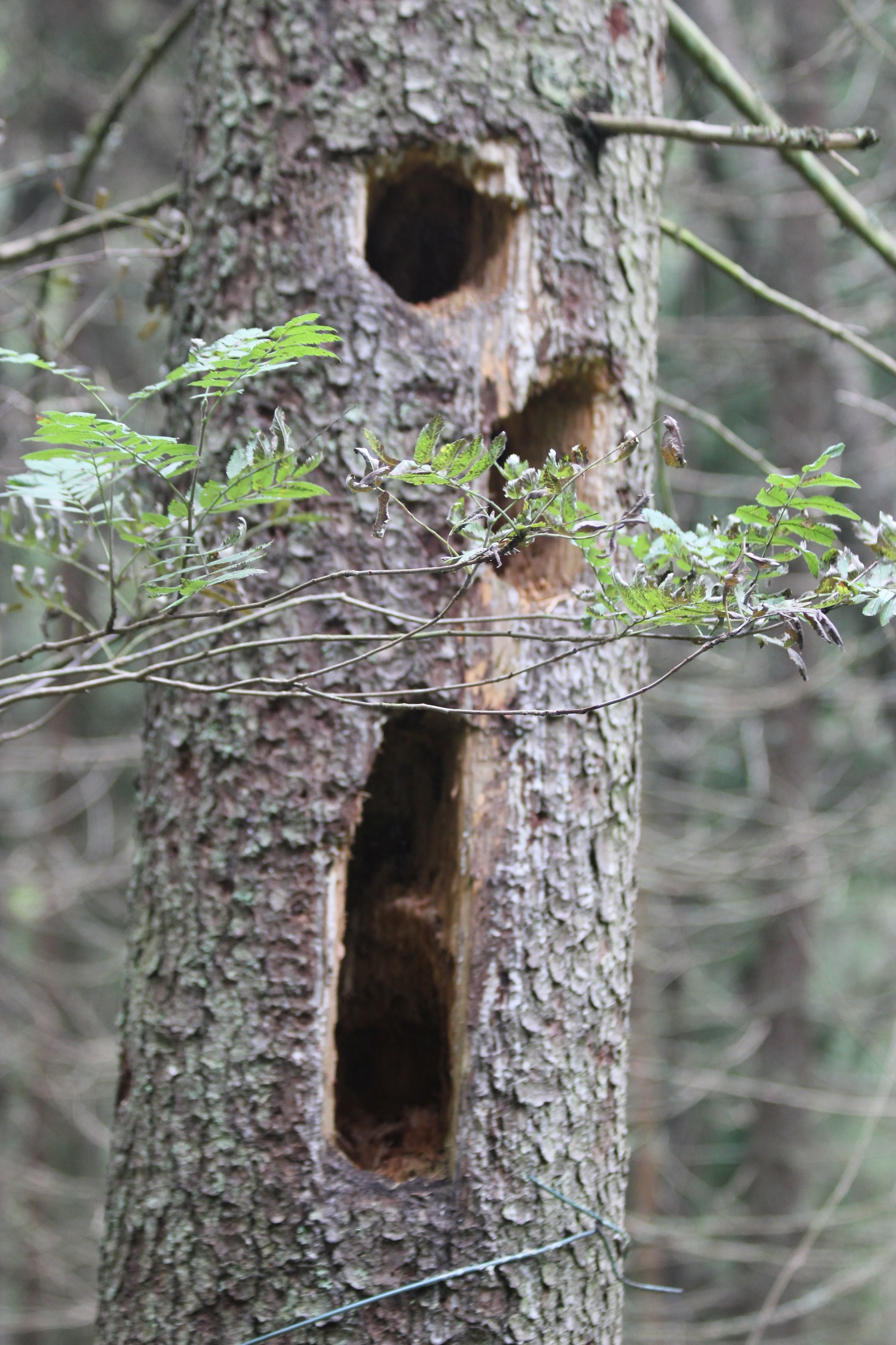 Fir tree by Black woodpecker. In Southern Finland